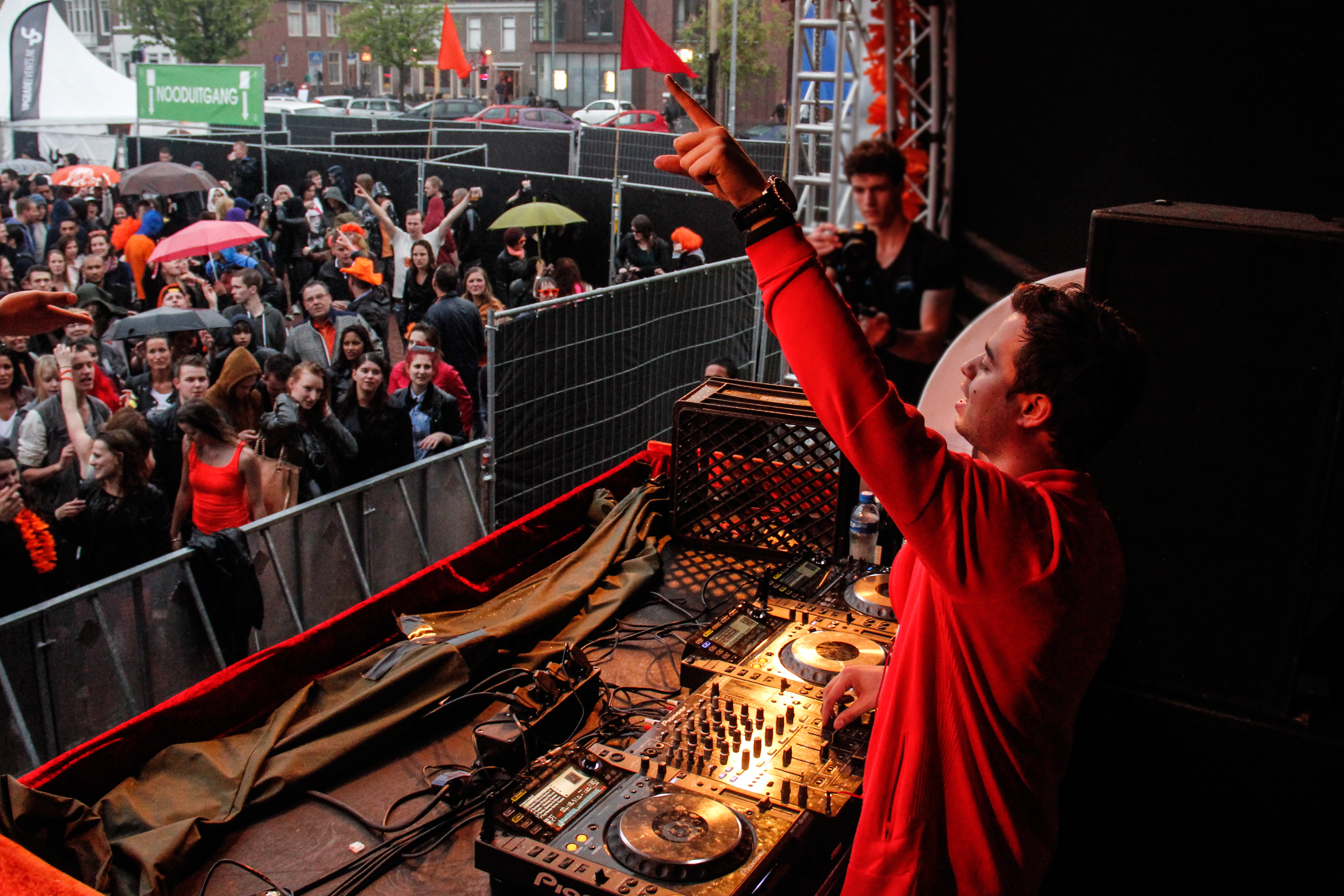 Quintino performing at KingsDay Groningen 2014